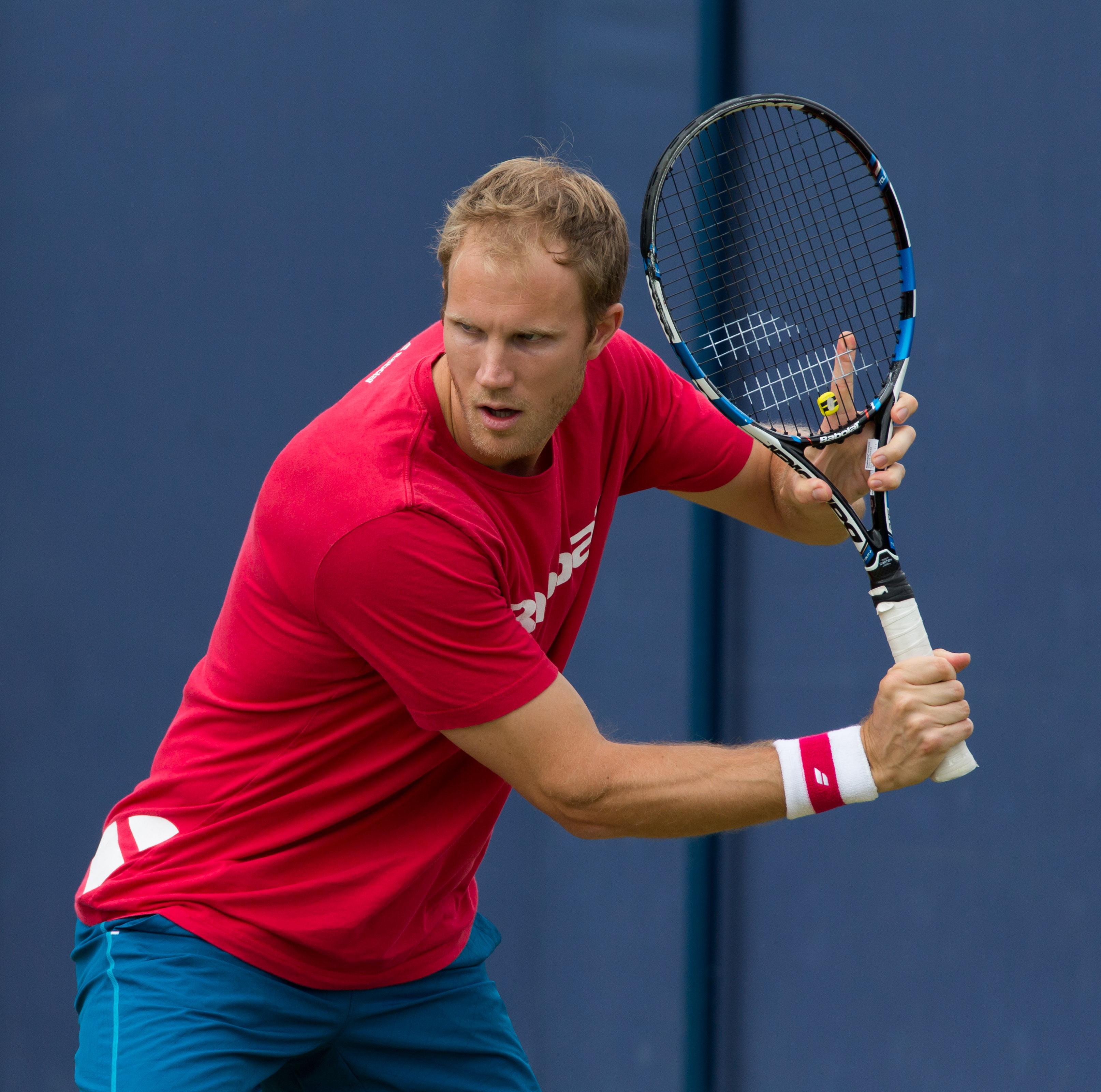 Dominic Inglot during practice at the Queens Club Aegon Championships in London, England.